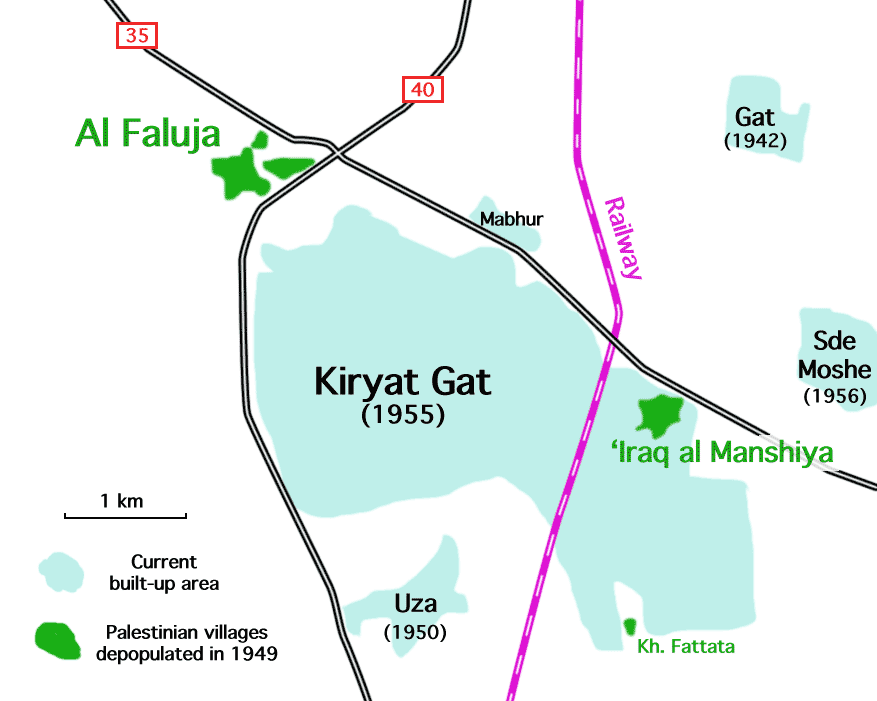 Kiryat Gat, Israel, showing location of Palestinian villages depopulated in 1949.